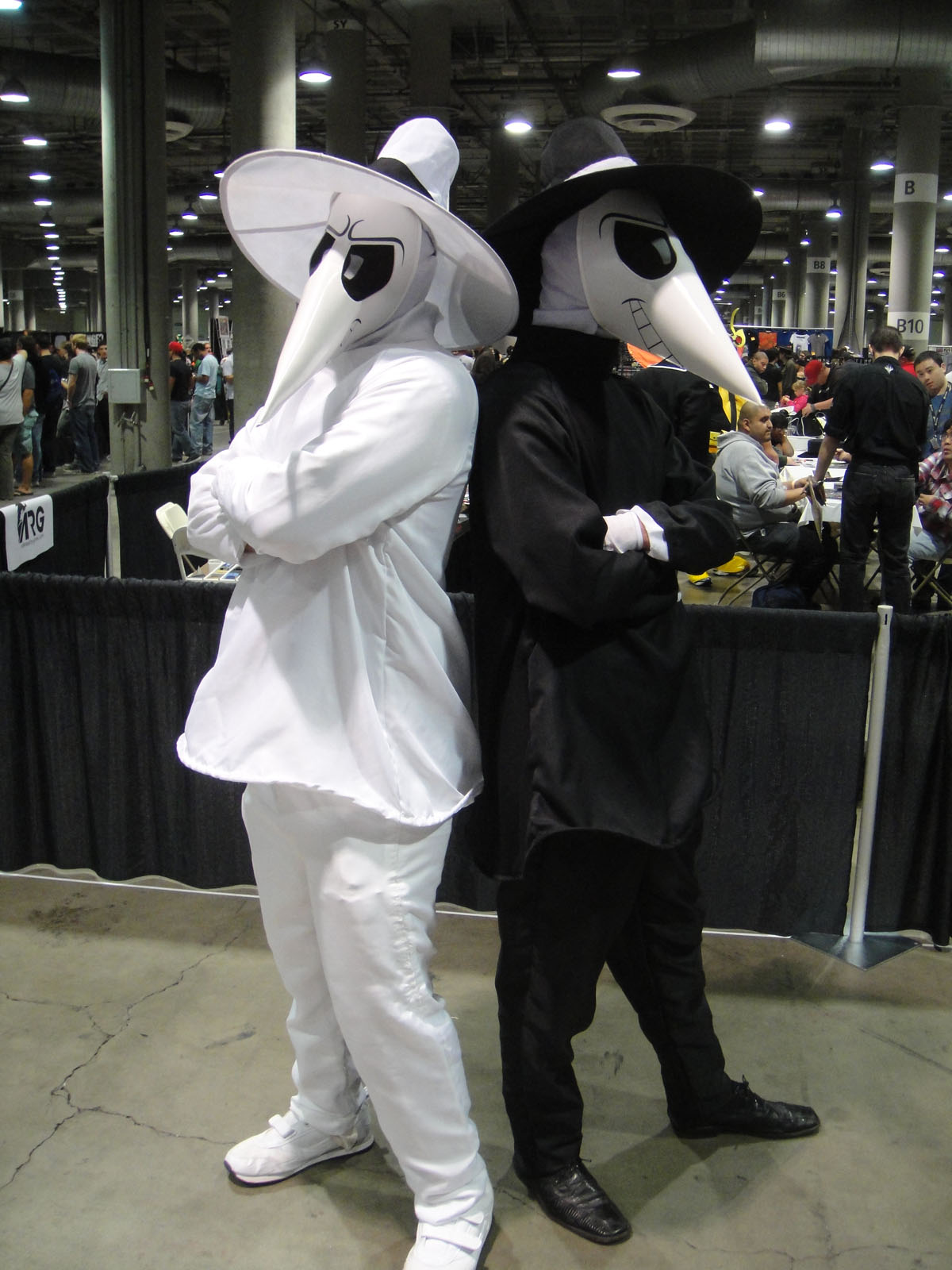 photo 2011 Pop Culture Geek taken by Doug Kline If you're interested in higher resolution versions of my images, contact me via my profile page.